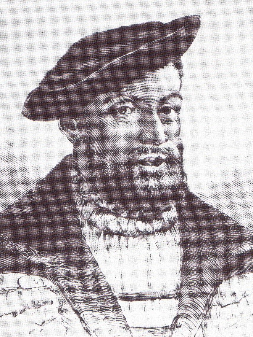 Portrait of Georg Sabinus